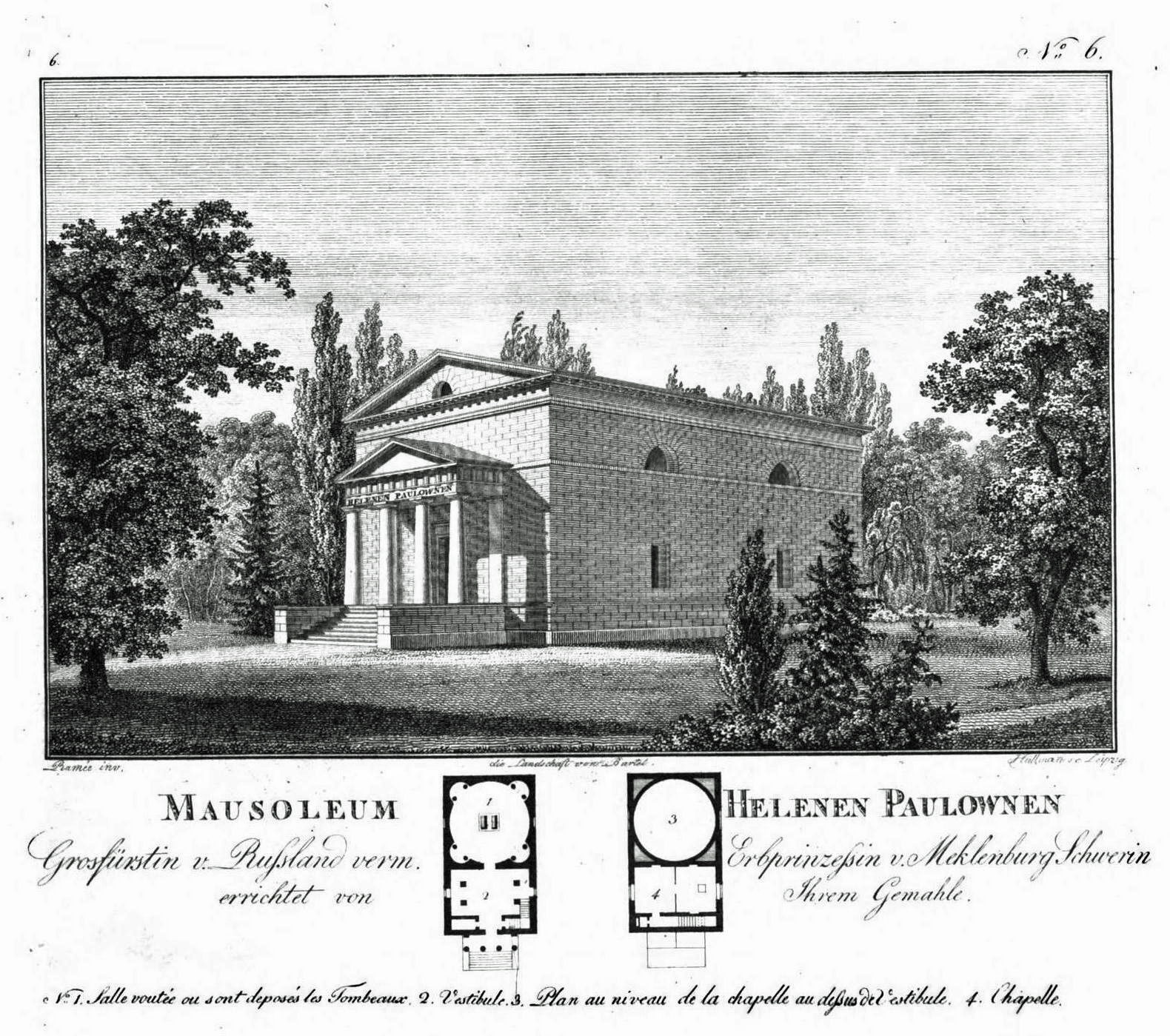 Helenen-Paulownen-Mausoleum in Ludwigslust, architectural drawings (1806)